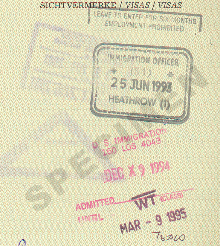 Visa-stamps; immigration at London Heathrow Airport (1993) and Los Angeles International Airport (1994)